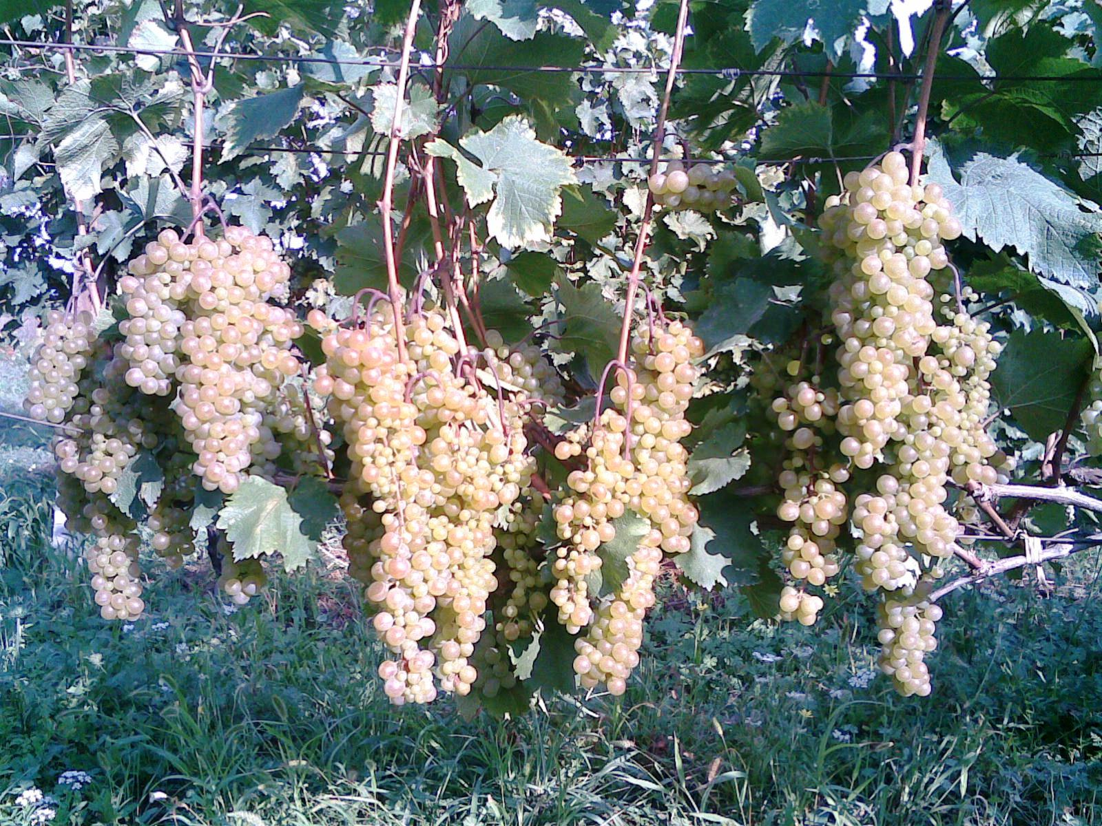 Rkatsiteli grapes, Kakheti, Georgia